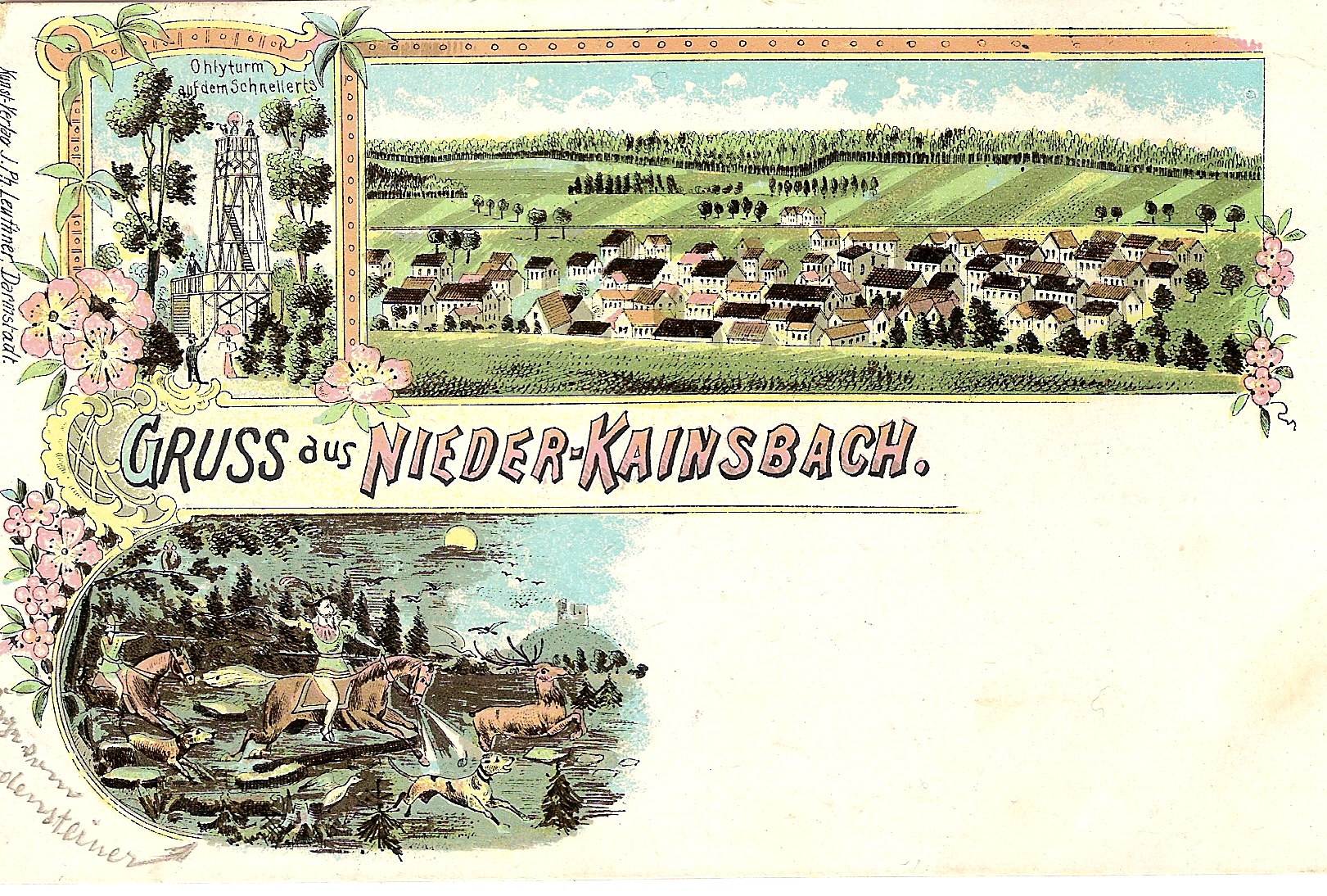 View of Nieder-Kainsbach (Odenwald/Hessen, Germany) in ca. 1905